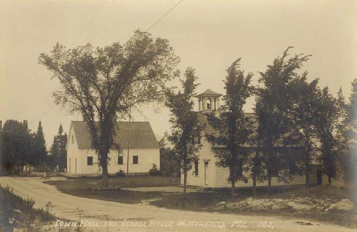 Town hall and schoolhouse, West Newfield, Maine